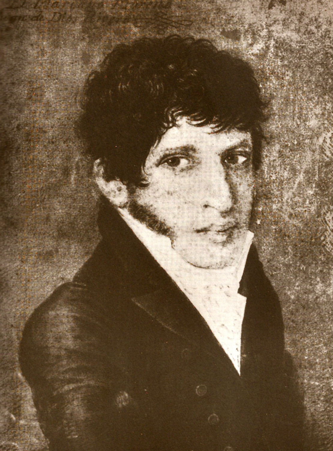 Mariano Moreno, founding father of Argentina